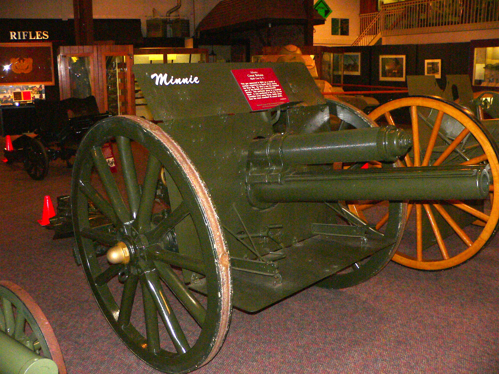 This is the US 75 mm Model 1917, a version of the British 18 pounder field gun built in USA. Picture taken by myself, Mark Pellegrini, at the United States Army Ordnance Museum (Aberdeen Proving Ground, MD) on August 14, 2007.